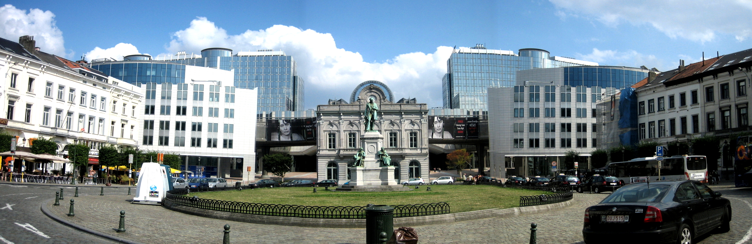 Panorama of the Place du Luxembourg, European Quarter of Brussels (Belgium). View of the European Parliament (western side), including converted station entrance in front) with statue of John Cockerill in foreground. Restaurants and bus stops on pavements each side.